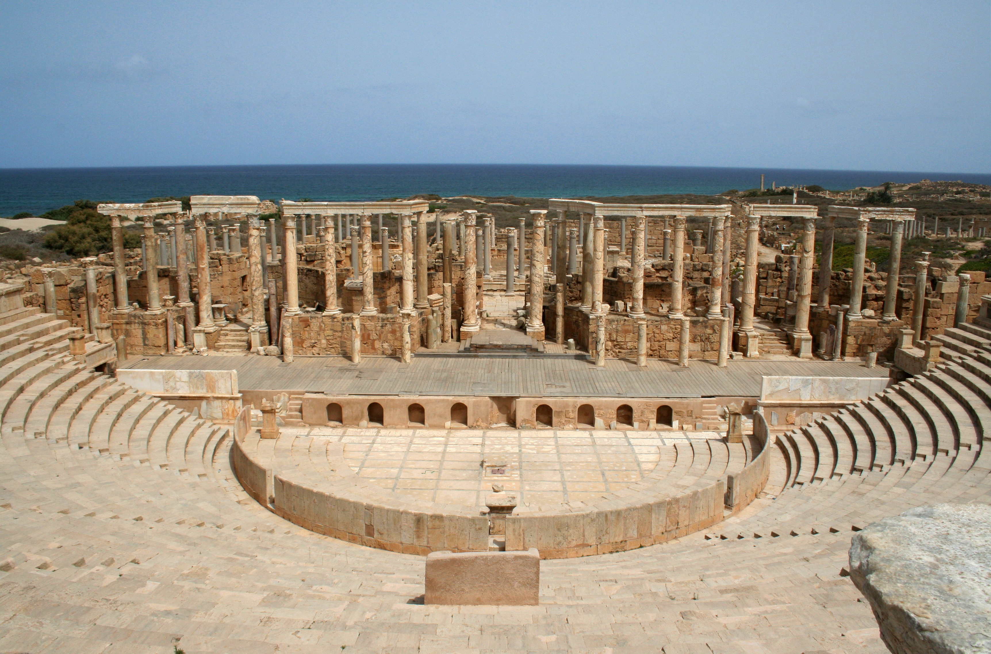 The ancient Roman theater at Leptis Magna, photographed in 2006